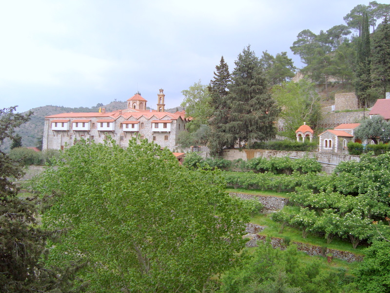 Cyprus Monastery